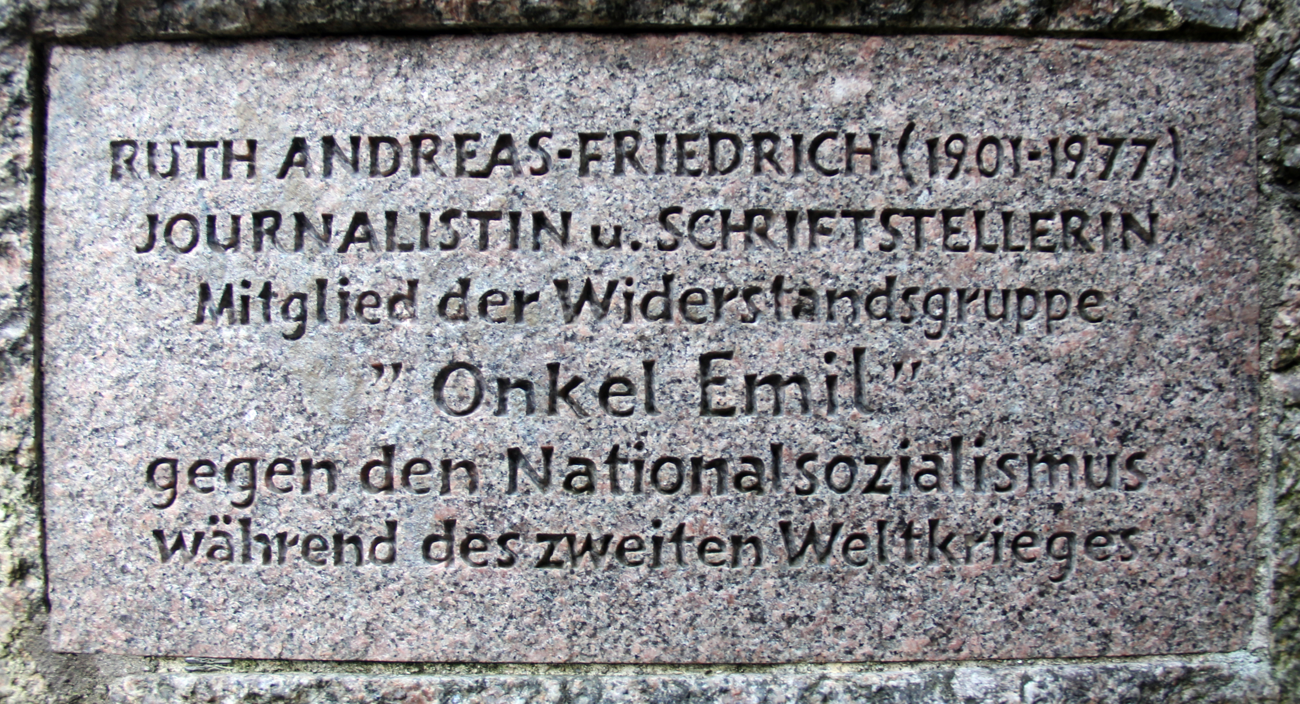 Memorial plaque, Ruth Andreas-Friedrich, Am Fichteberg 15a, Berlin-Steglitz, Germany